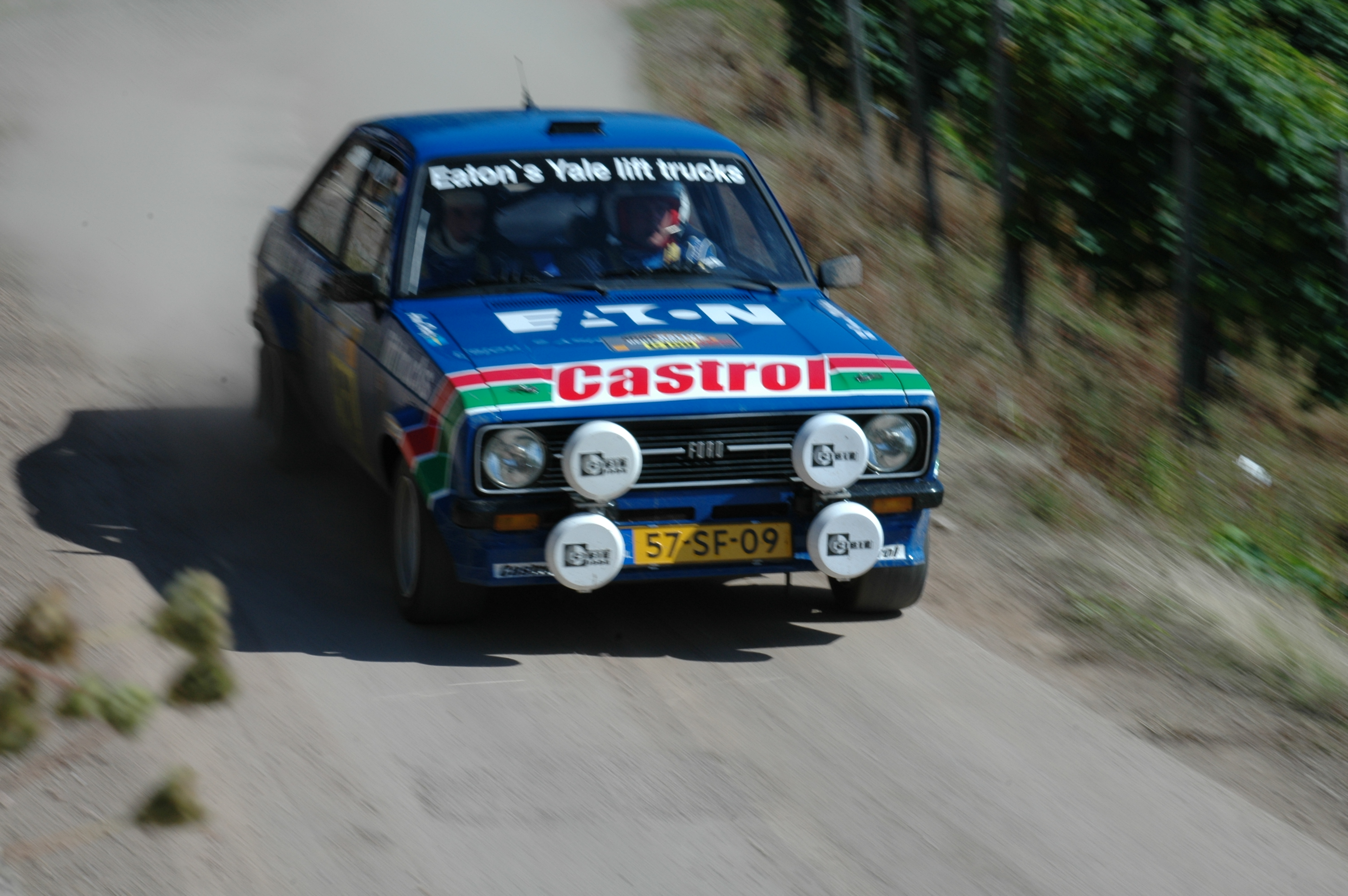 Hannu Mikkola's 1978 RAC Rally winning Ford Escort RS1800 driven during the 2007 Rallye Deutschland.